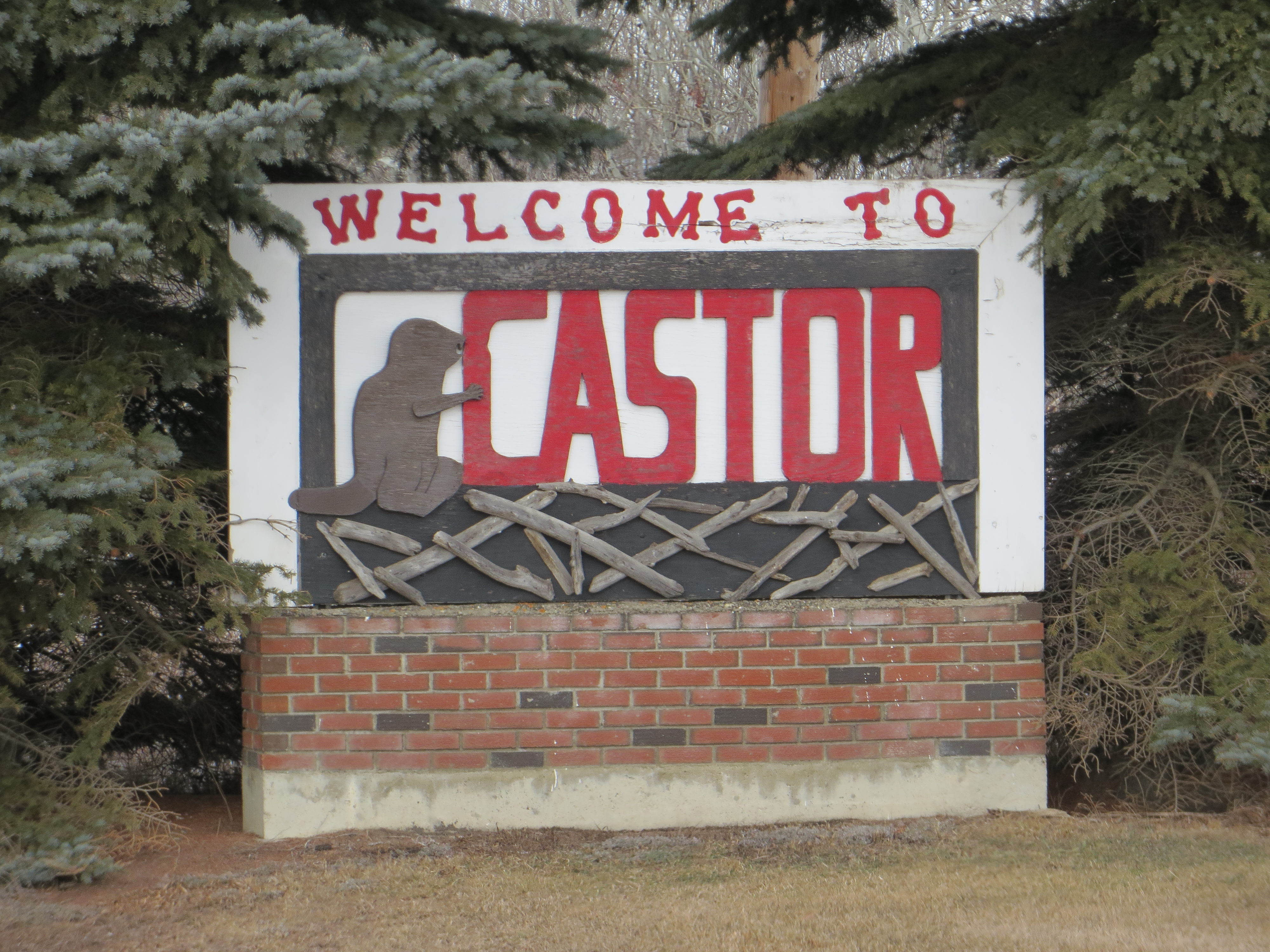 This is the sign that marks the boundary of the Town of Castor in Alberta, Canada.